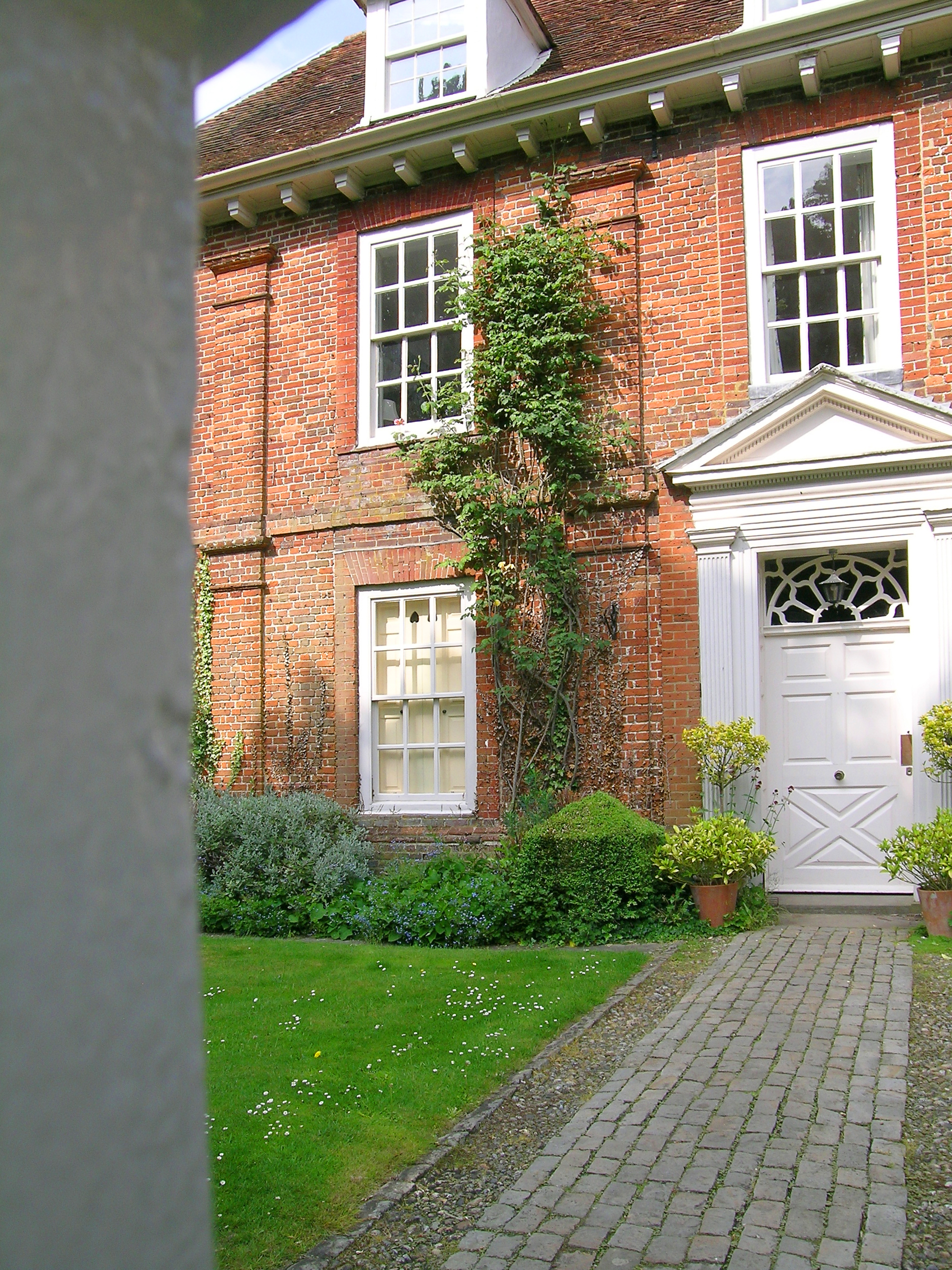 This shows the front door and front wall with brick pilasters of the 17th century house at Princes Risborough, Bucks now known as the Manor House (formerly Brook House)